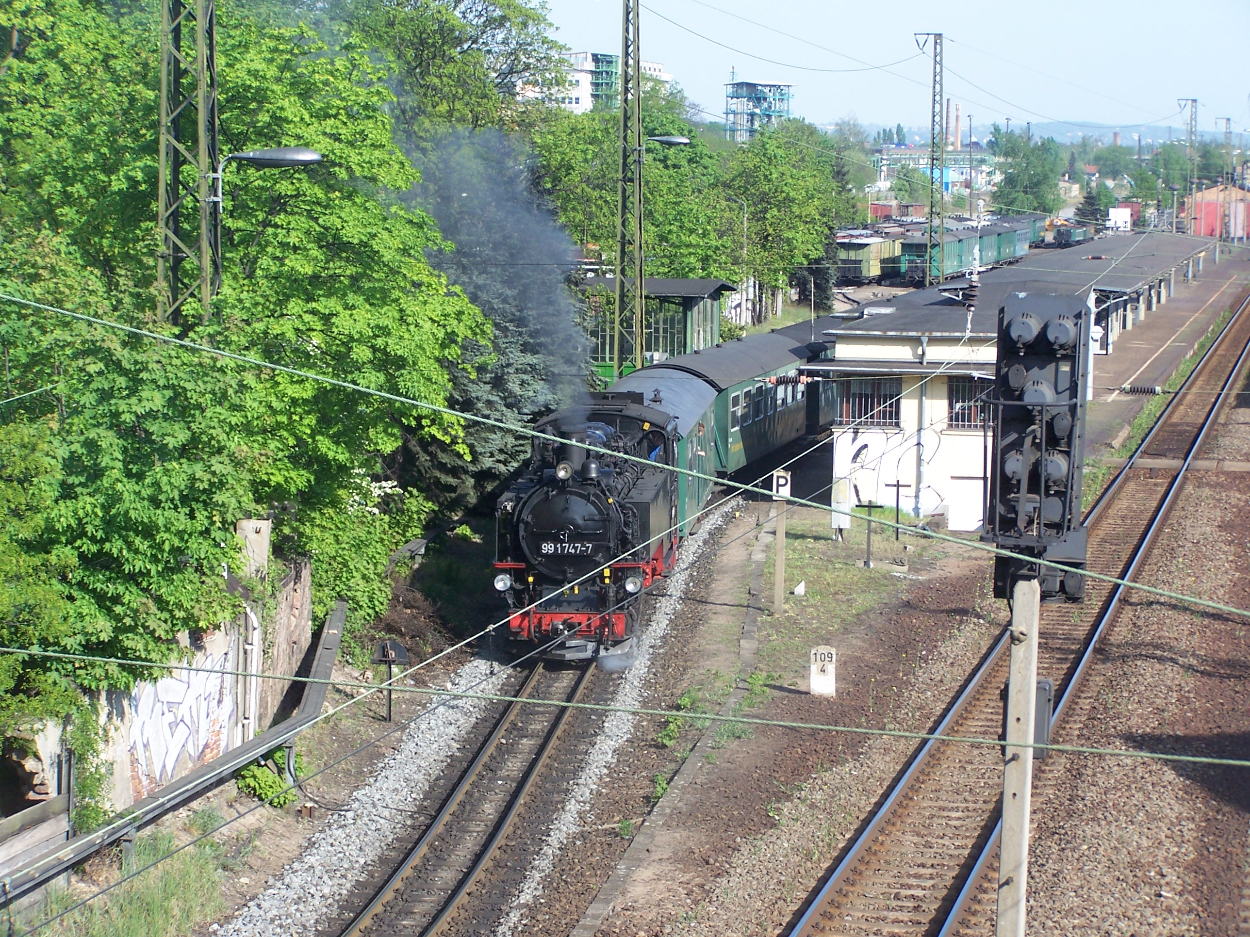 a train of the narrow-gauge Radebeul-Radeburg railway line in Germany leaving the station Radebeul-Ost, for a few hundred meters next to the "regular-size railway"